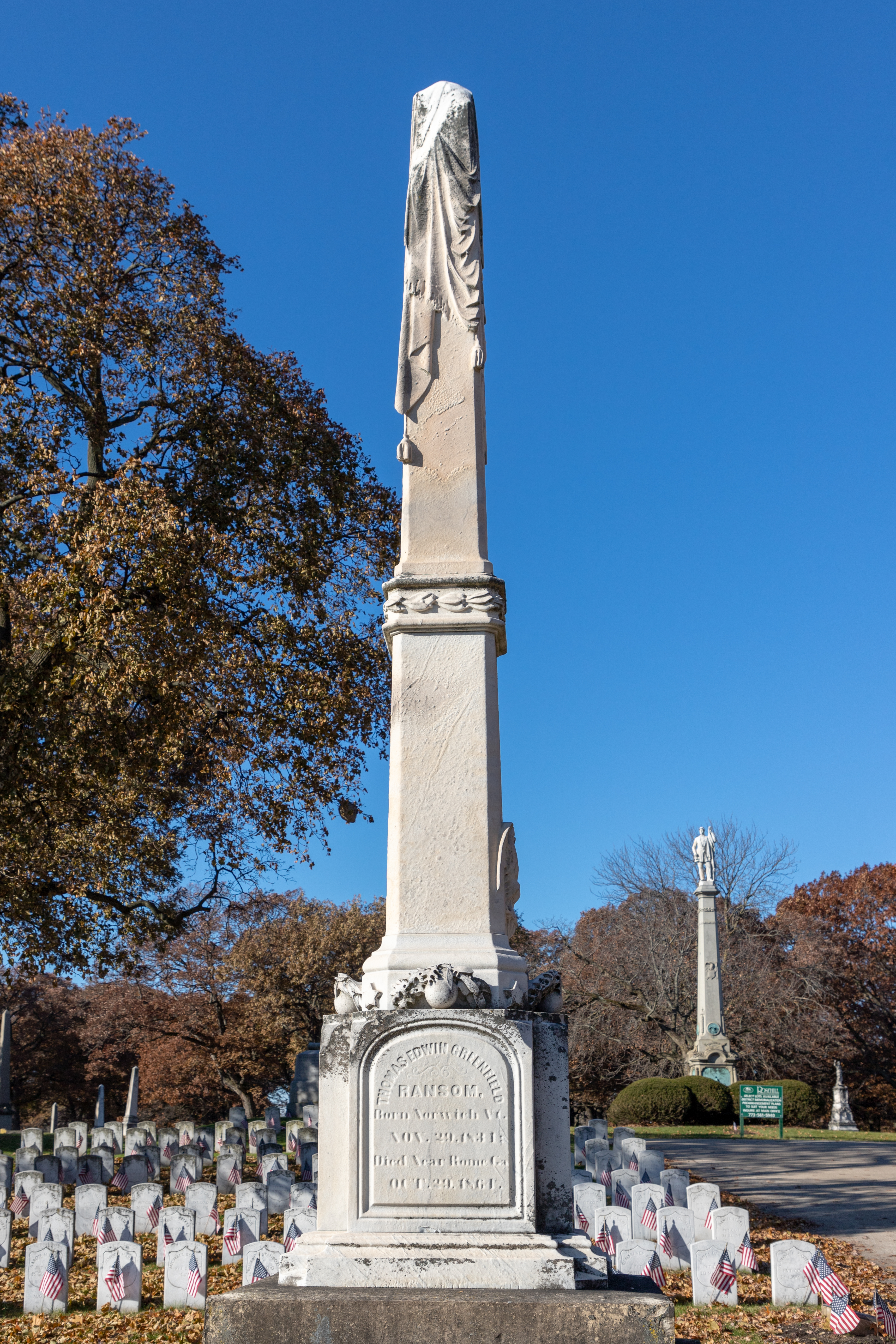 Thomas E.G. Ransom Monument. Civil War Union Brigadier General. Born 1834, Norwich, Vermont, died 1864, Rome, Georgia. Rosehill Cemetery, Chicago, Illinois.